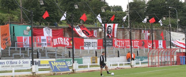 Variety of Derry City F.C. supporter flags in the Brandywell Stadium, Derry, Northern Ireland. (2006) Personal photo. Re-sized.